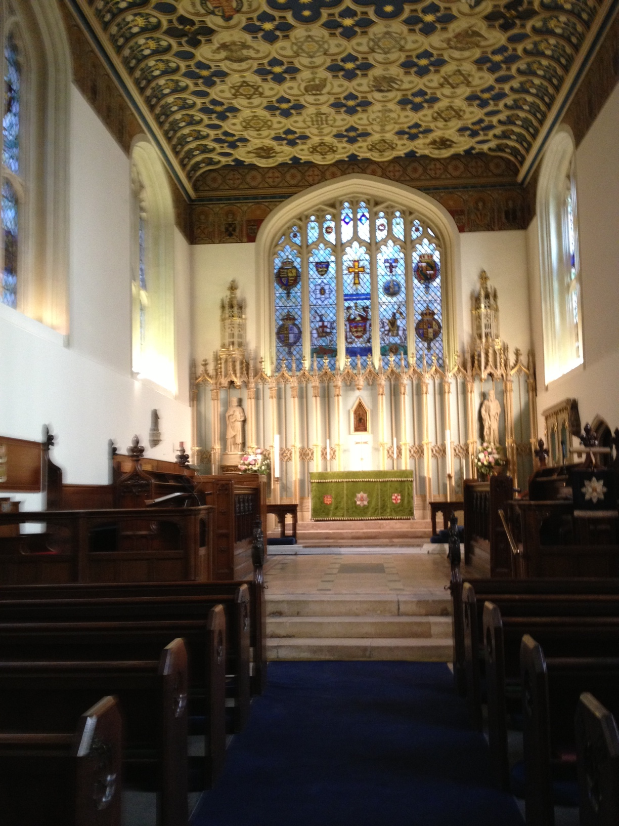 Interior, the Queen's Chapel of the Savoy, London